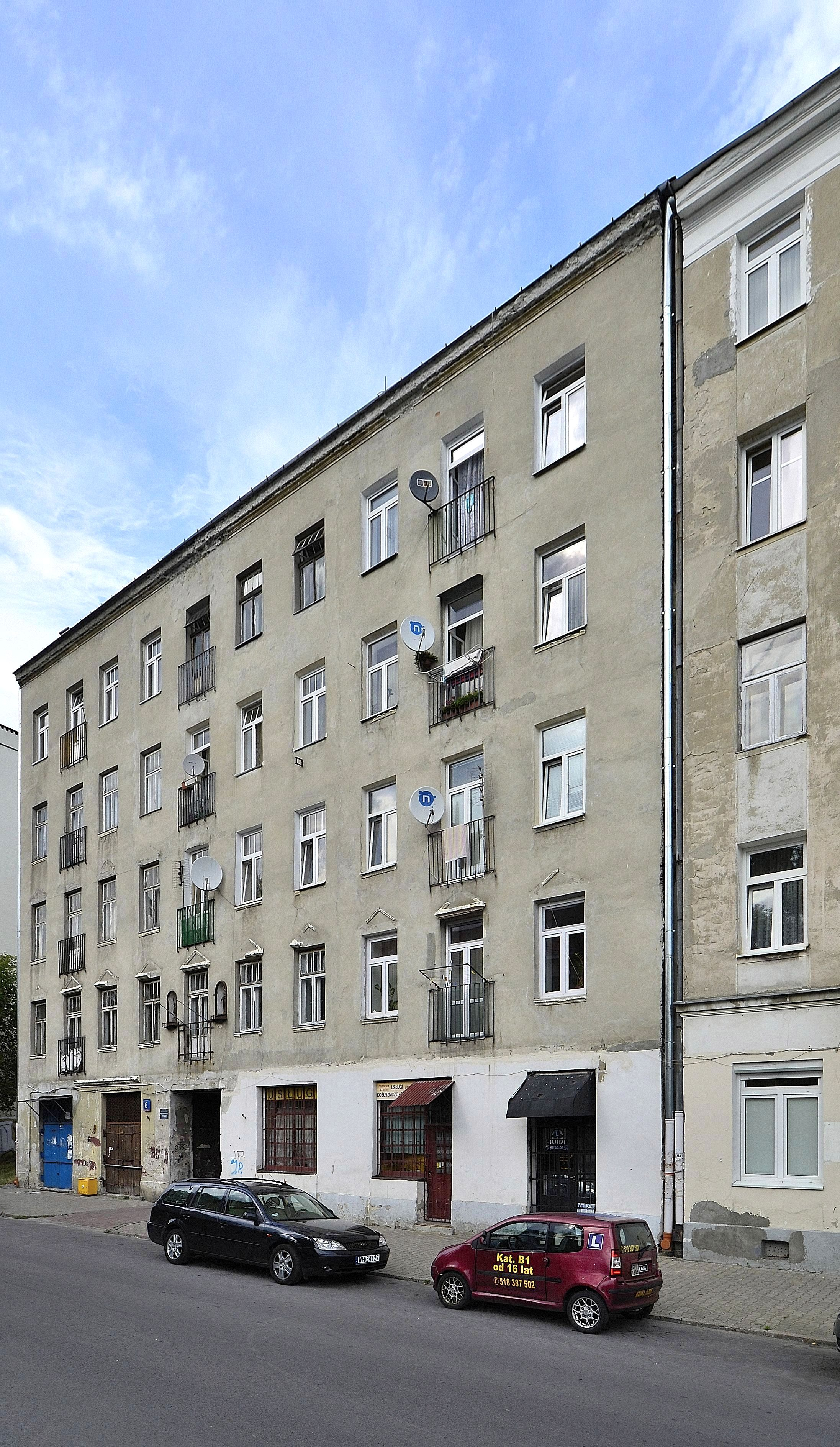 Tenemenet house at 6 Kowelska Street in Warsaw